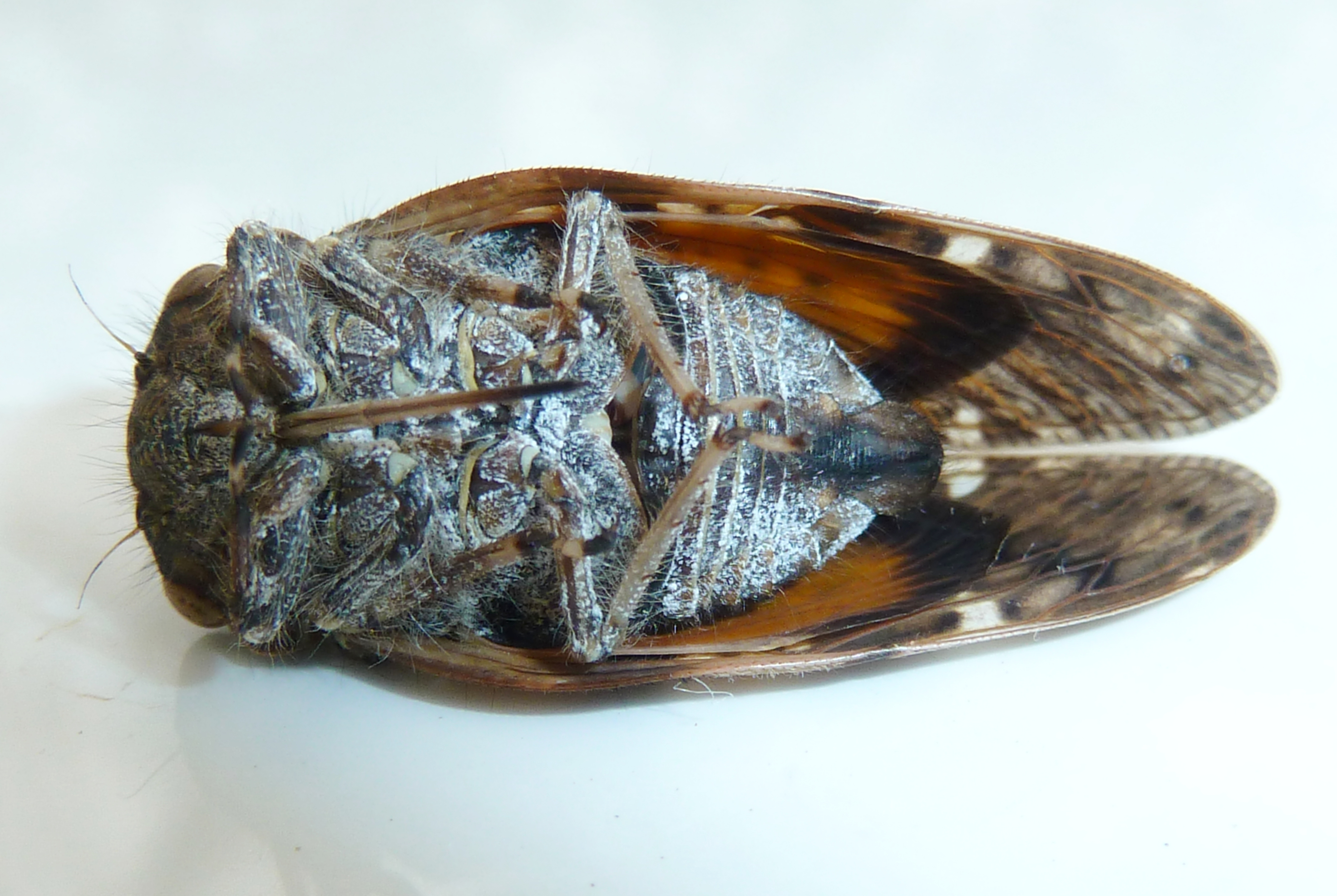 Orange-winged cicada, P. haglundi, showing underside of body and wings. Collected at Skeerpoort on the southern slope of the Magaliesberg, South Africa. Acacia ataxacatha grows nearby, on which it possibly fed.